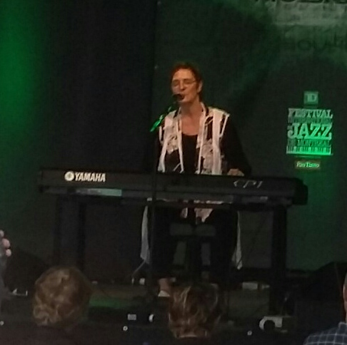 Mimi Blaia photographed in Montreal, Quebec, Canada at the Montreal International Jazz Festival.